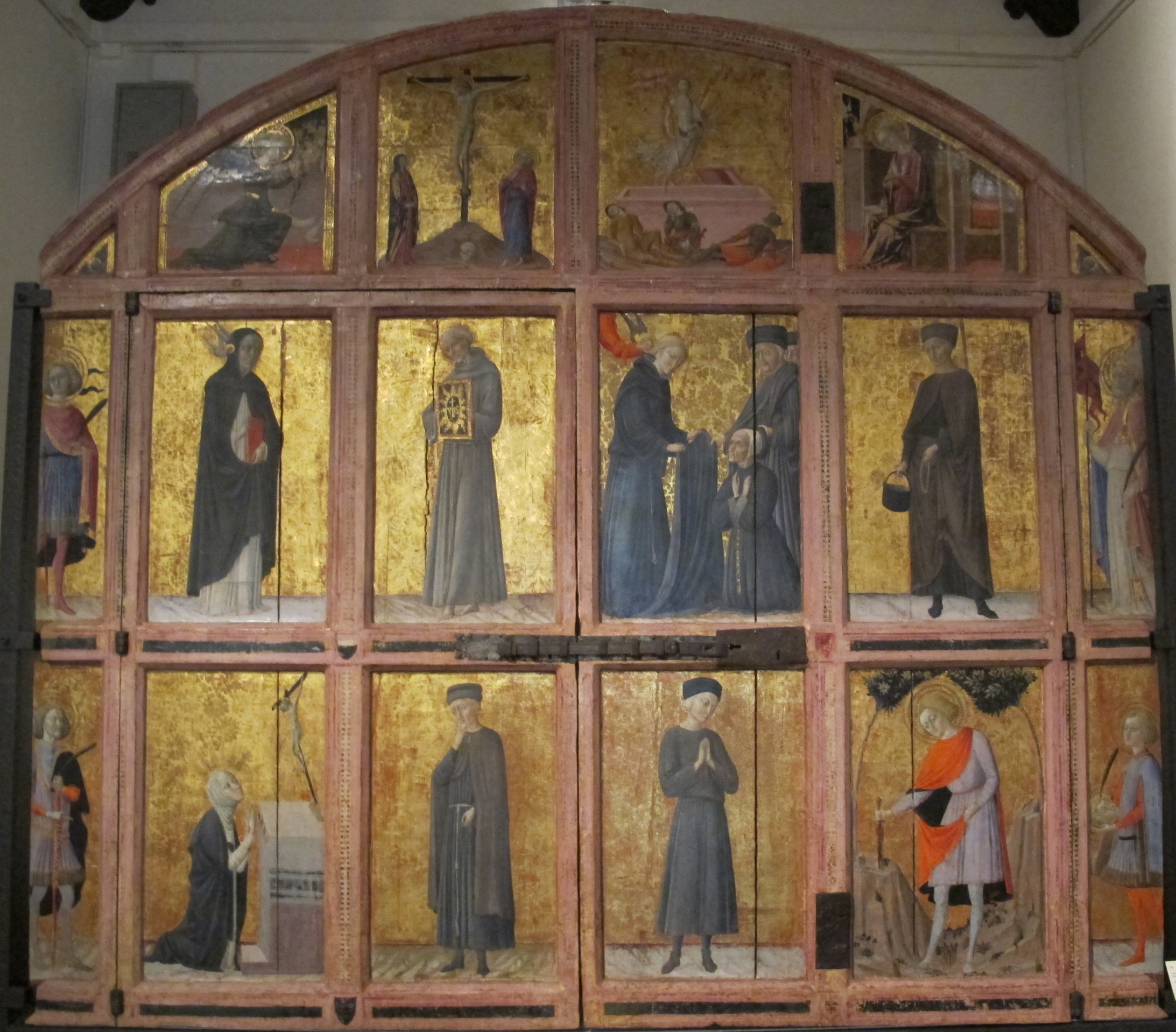 Painting in the National Pinacotheque, Siena